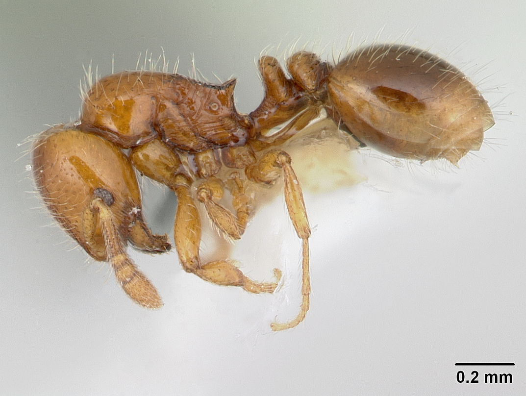 Profile view of ant Oxyepoecus bruchi specimen casent0178098.